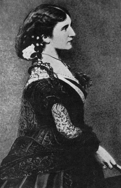 Katharine O'Shea (1846–1921)